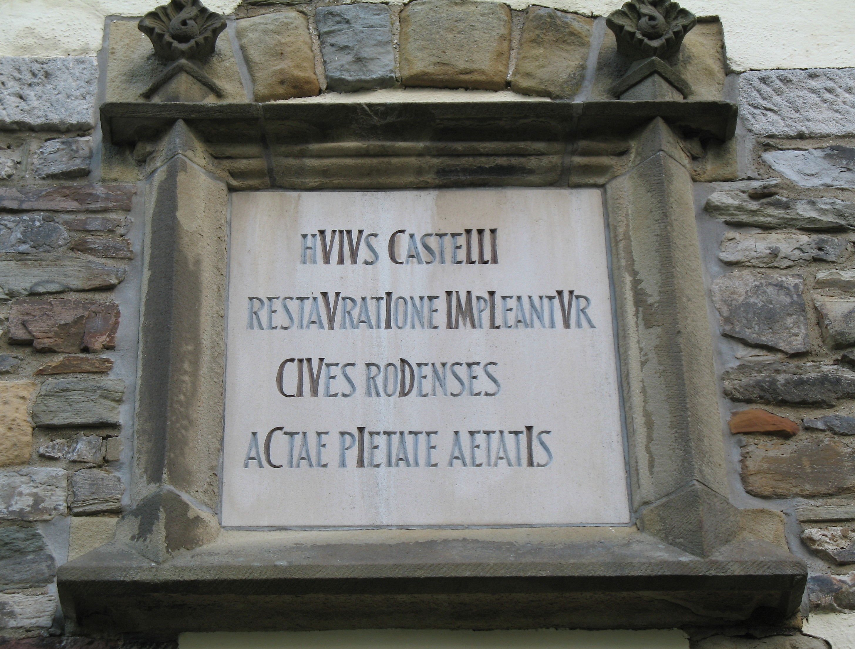 Latin inscription at the southern front of Castle Rode in Herzogenrath, Germany. "May find fulfilment through the restauration of this castle the citizens of Rode through the pity of the time gone by."